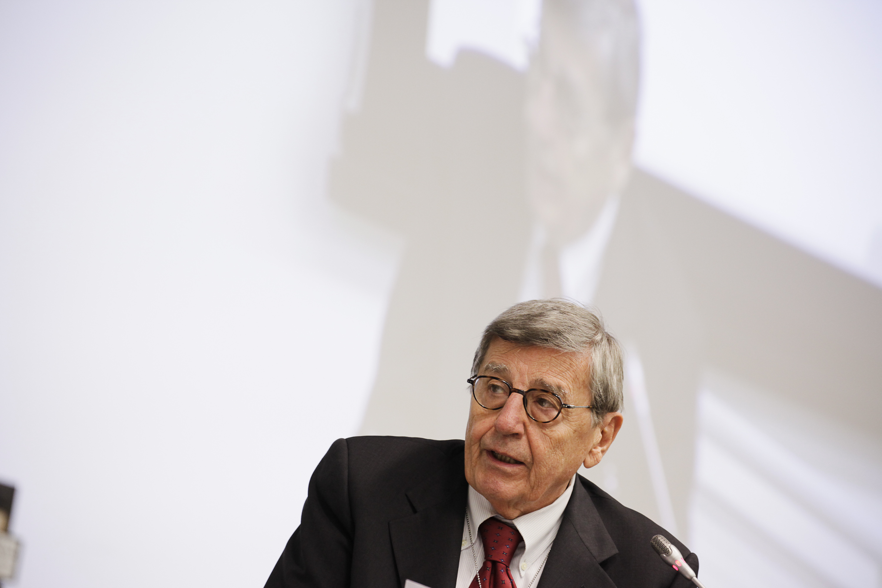 23 September, 2011 - New York Under Secretary for Foreign Affairs of Italy Vincenzo Scotti at the Conference on Facilitating the Entry into Force of the Comprehensive Nuclear-Test-Ban Treaty. Photographer: James Leynse Copyright CTBTO Preparatory Commission